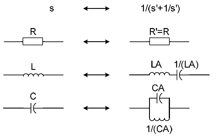 Relation at the low pass to band pass filter transformation